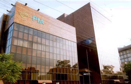 Pakistan International Airlines Building in Lahore